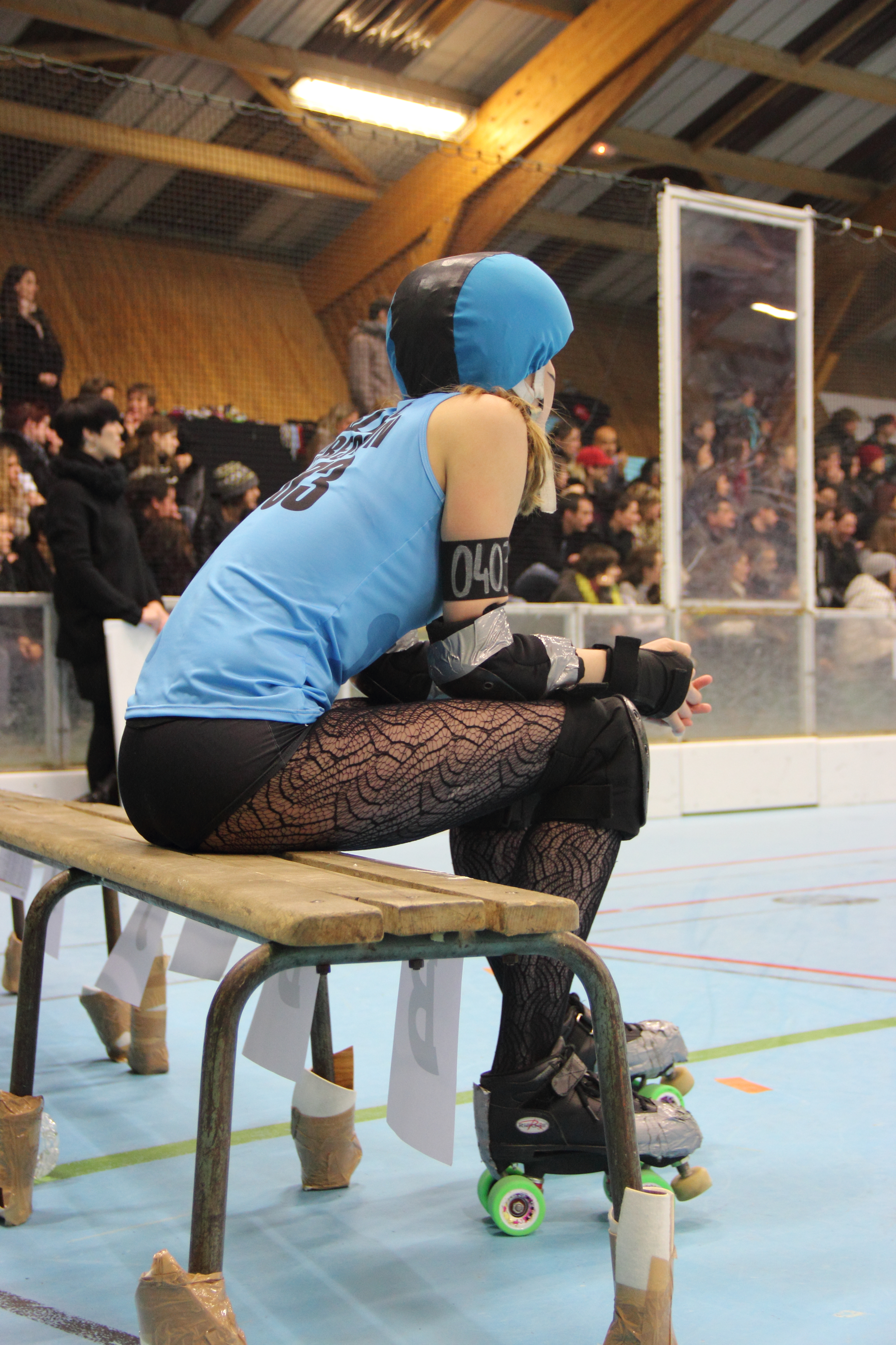 Roller Derby Toulouse — 9 December 2012, La Ramée, Tournefeuille. Match between: Nothing Toulouse — Quad Guards « Blonde Pression » (joueuse des Nothing Toulouse) en prison.